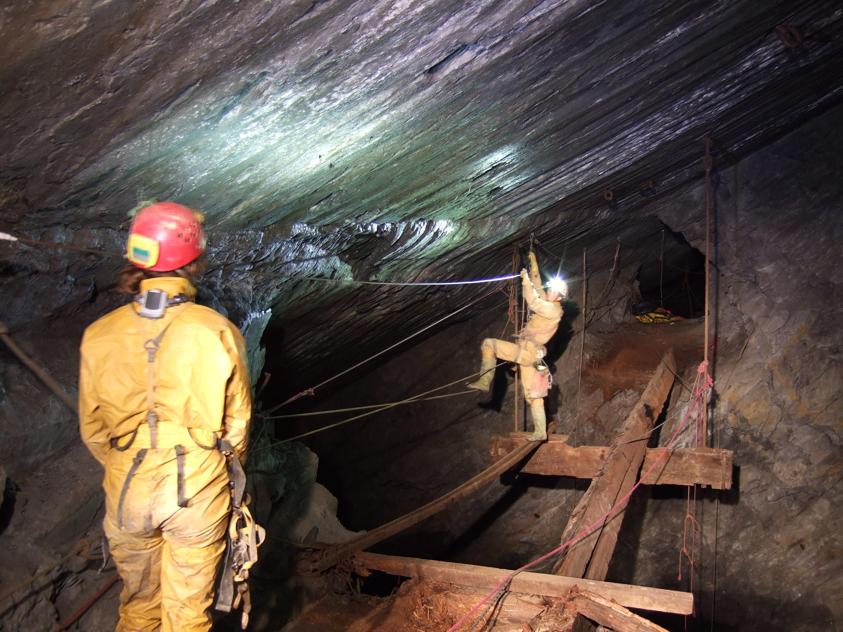 Underground Bridge in Croesor Quarry slate mine en route to Rhosydd Quarry